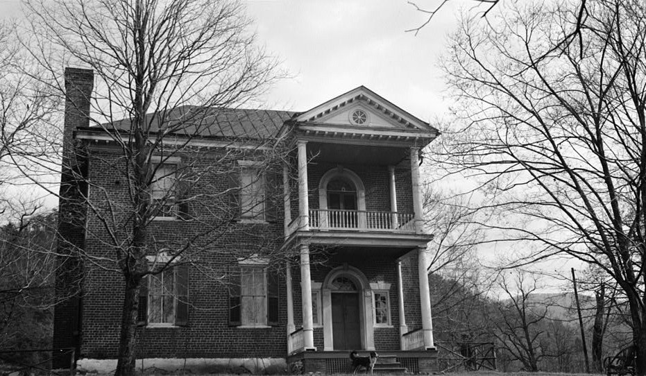 Fotheringay, U.S. Route 11 vicinity, Elliston vicinity (Montgomery County, Virginia) cropped This file comes from the Historic American Buildings Survey (HABS), Historic American Engineering Record (HAER) or Historic American Landscapes Survey (HALS). These are programs of the National Park Service established for the purpose of documenting historic places. Records consist of measured drawings, archival photographs, and written reports. When reusing please credit: Library of Congress, Prints & Photographs Division, VA,61-____,1-1 This tag does not indicate the copyright status of the attached work. A normal copyright tag is still required. See Commons:Licensing for more information. English | +/− This work is in the public domain in the United States because it is a work prepared by an officer or employee of the United States Government as part of that person’s official duties under the terms of Title 17, Chapter 1, Section 105 of the US Code. See Copyright. Note: This only applies to original works of the Federal Government and not to the work of any individual U.S. state, territory, commonwealth, county, municipality, or any other subdivision. This template also does not apply to postage stamp designs published by the United States Postal Service since 1978. (See 206.02(b) of Compendium II: Copyright Office Practices). It also does not apply to certain US coins; see The US Mint Terms of Use. This file has been identified as being free of known restrictions under copyright law, including all related and neighboring rights.